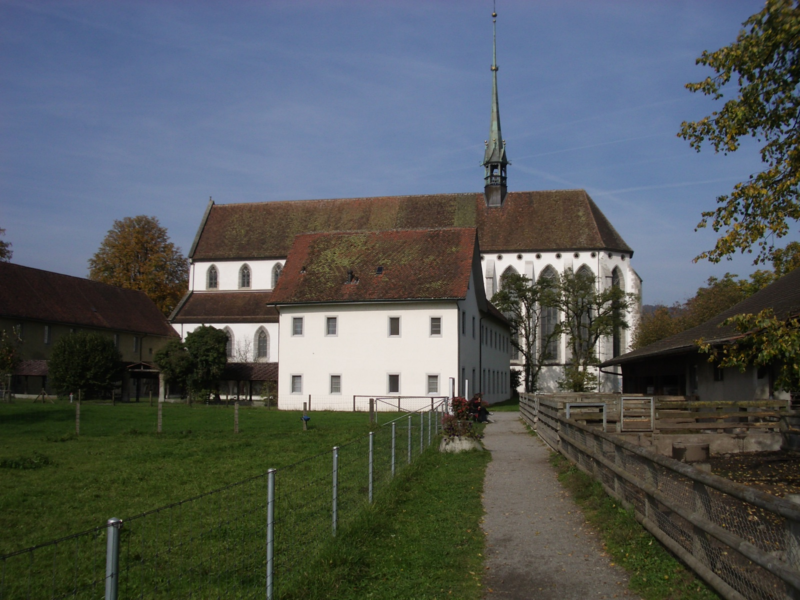 Windisch AG, Switzerland